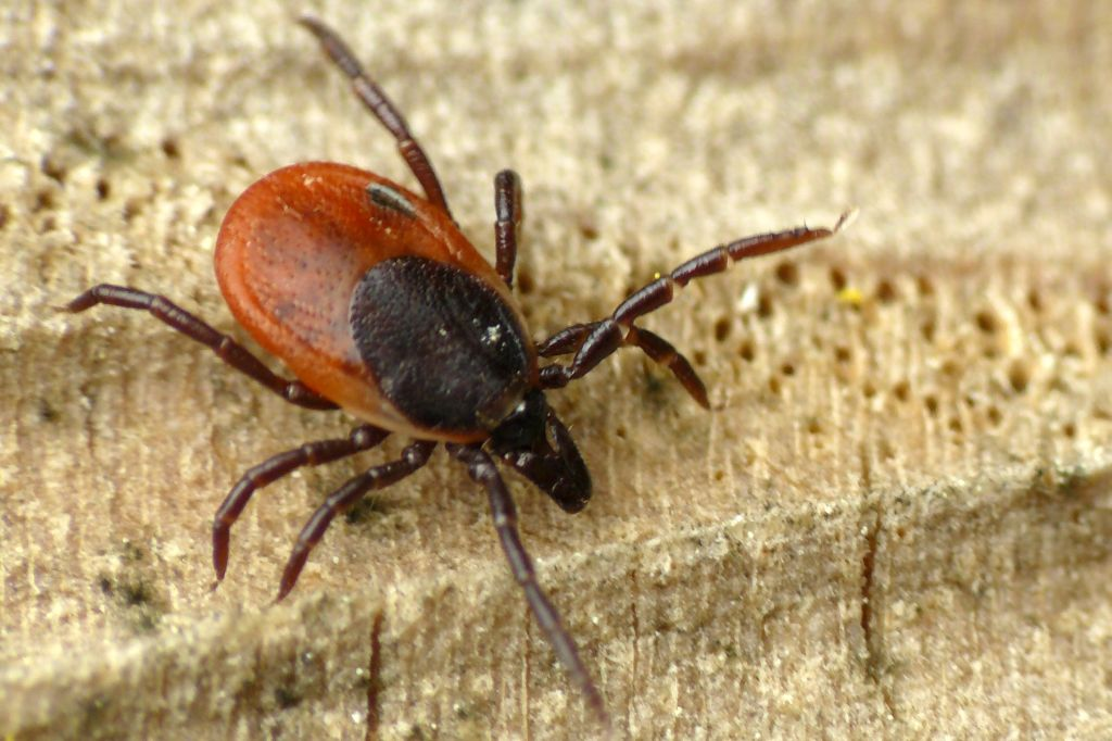 Ixodes ricinus